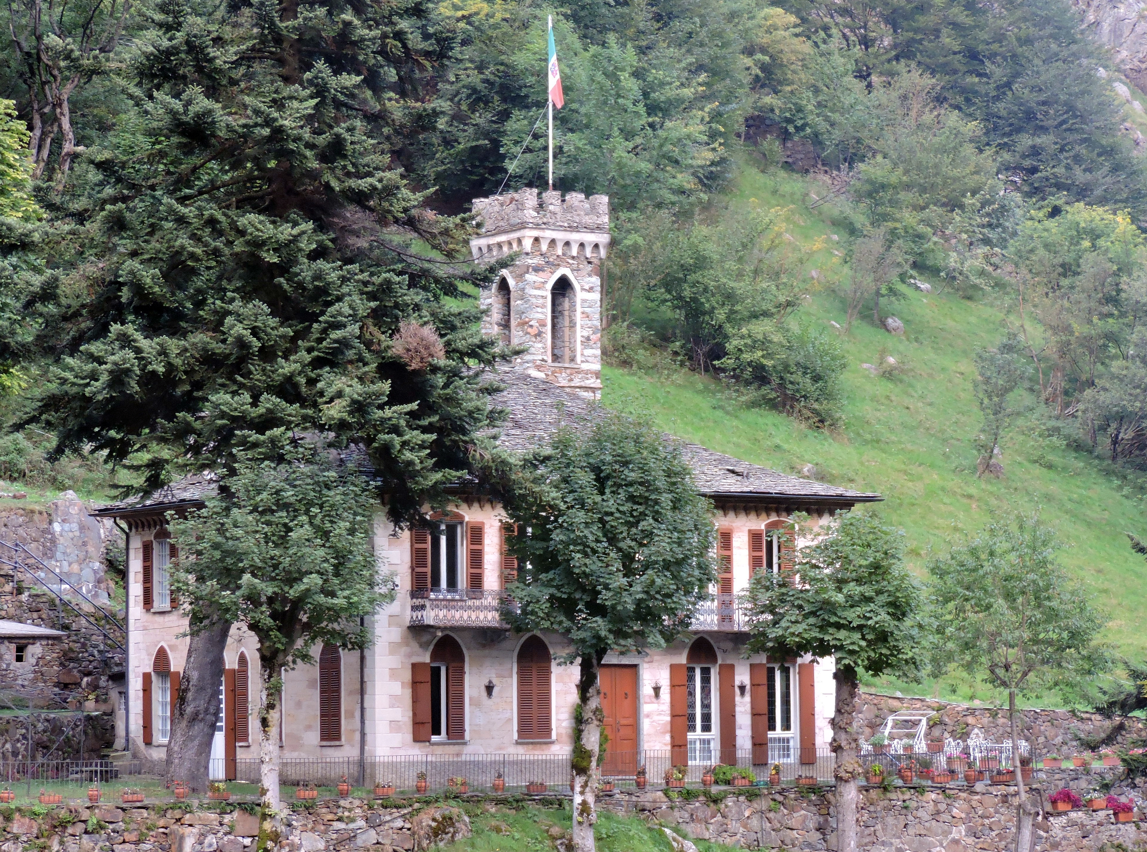 Campello Monti (Valstrona, Italy): villa Bordo